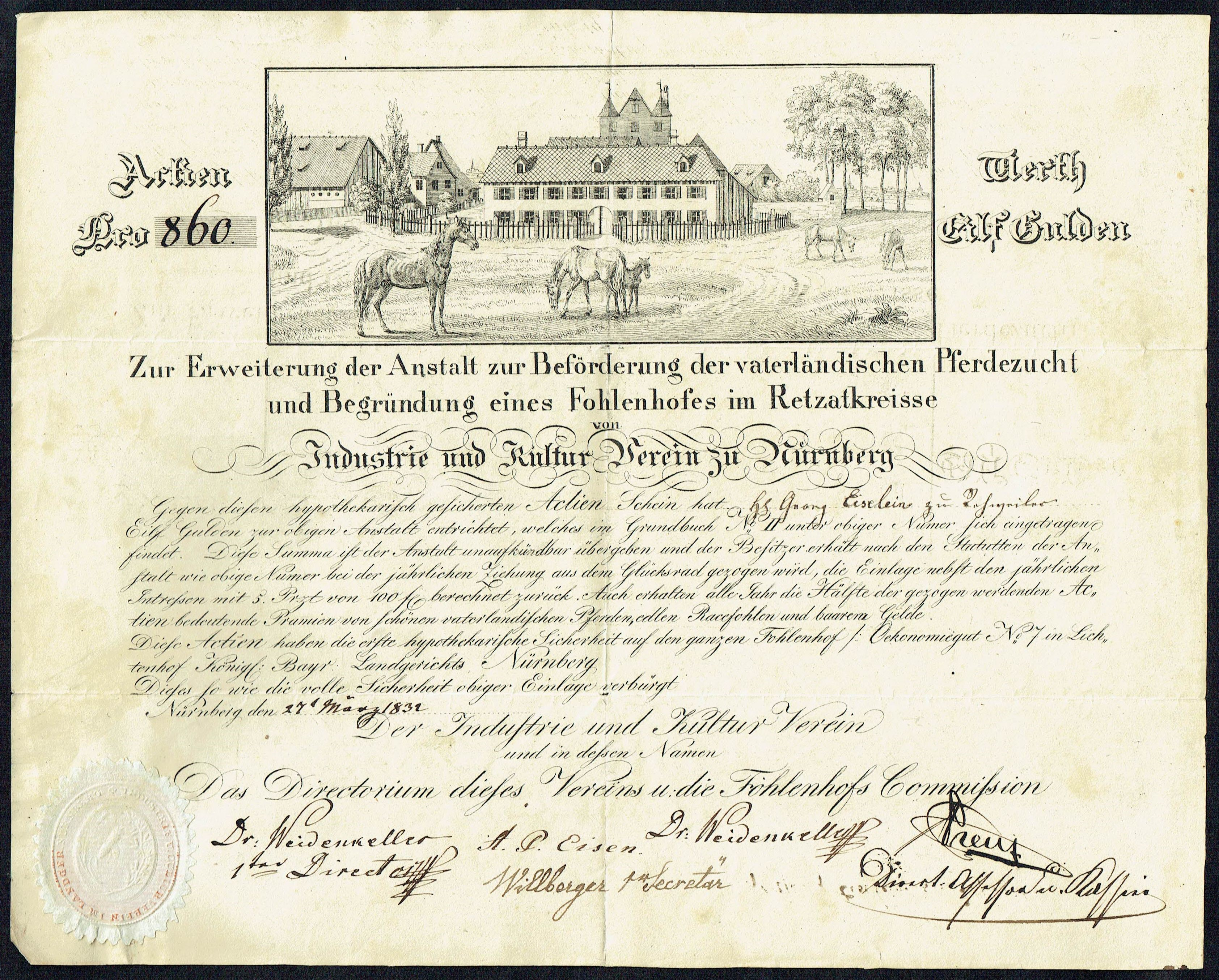 Share of the Industrie und Kultur Verein zu Nürnberg, issued 27. March 1832